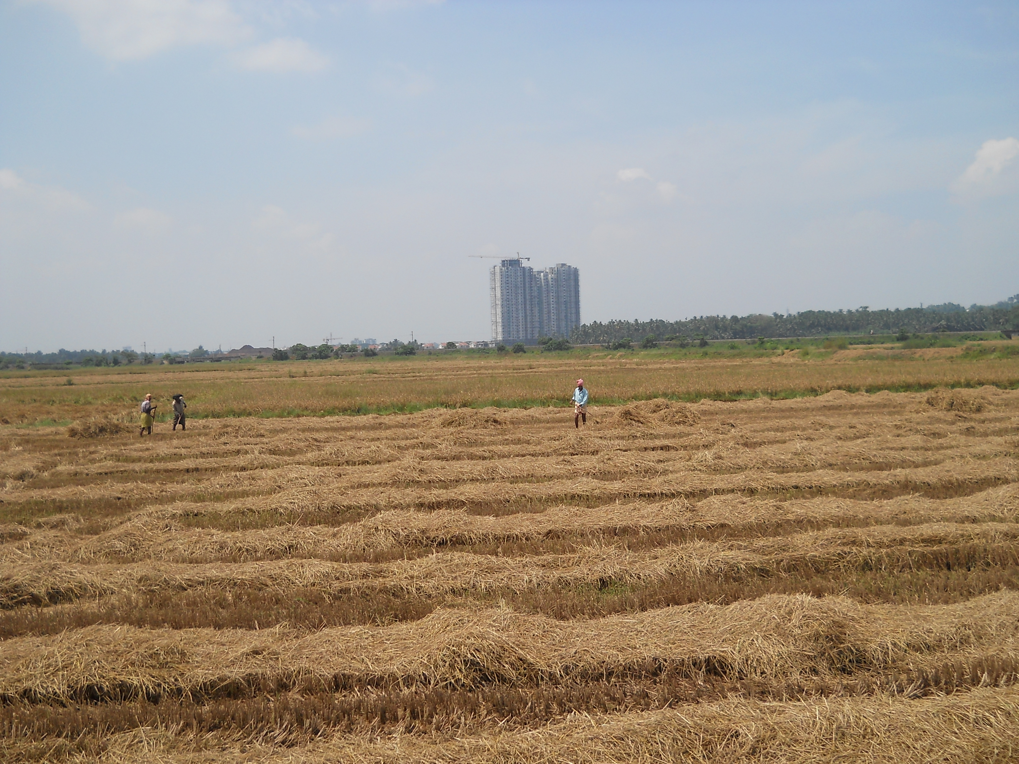 Straw windrows on a stubble field in India